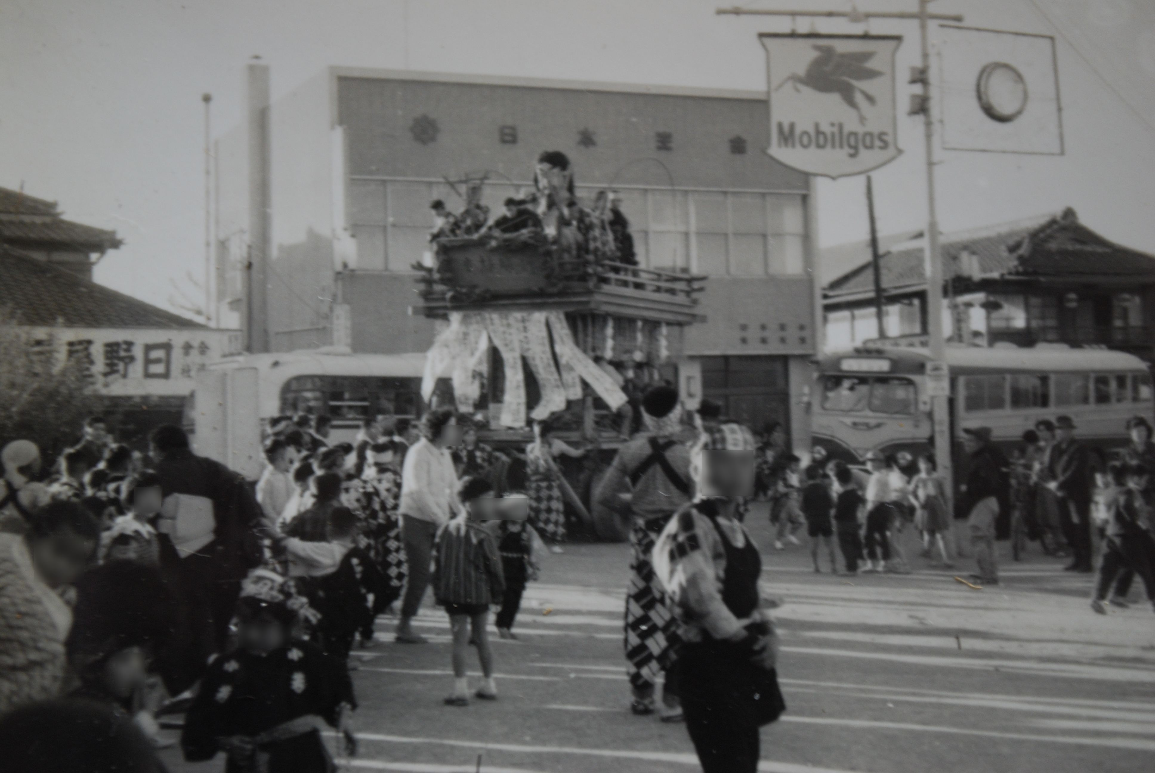 Festival Sawara about 1950's,Sawara-city,Japan